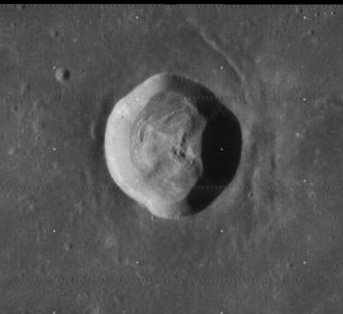 Crater Dawes on the Moon.